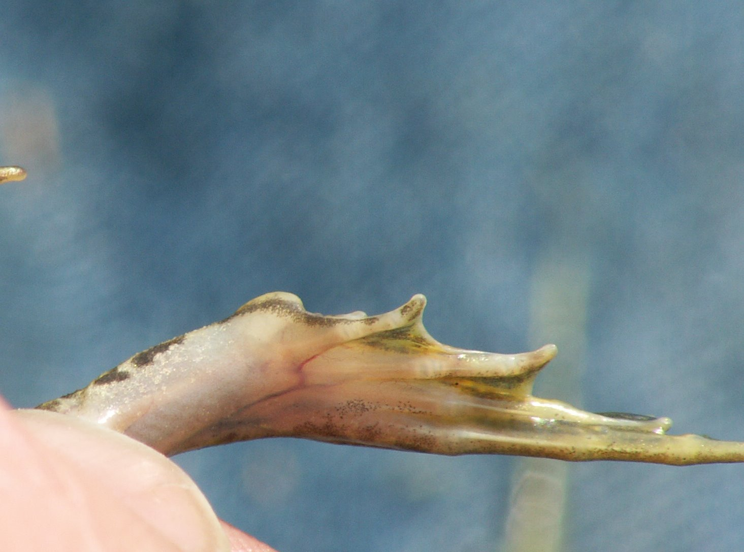 Picture of the metatarsal knob (white hump somewhat before the small toe). This one is asymmetrical, so it belongs to the Edible Frog, which is a special kind of hybrid called a klepton. (Rana klepton Esculenta aka Pelophylax klepton esculenta)